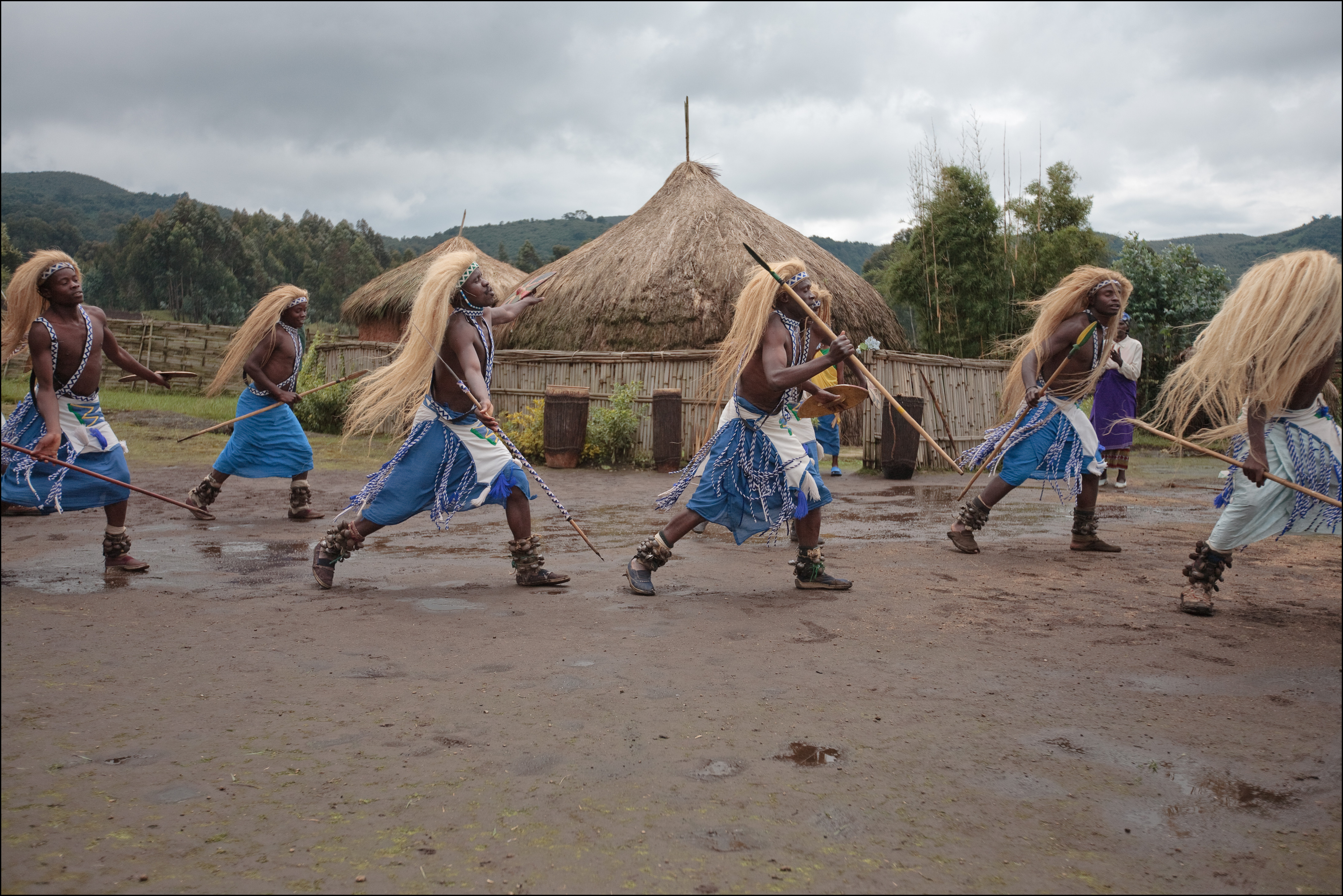 This is an image of Cultural Fashion or Adornment from Rwanda